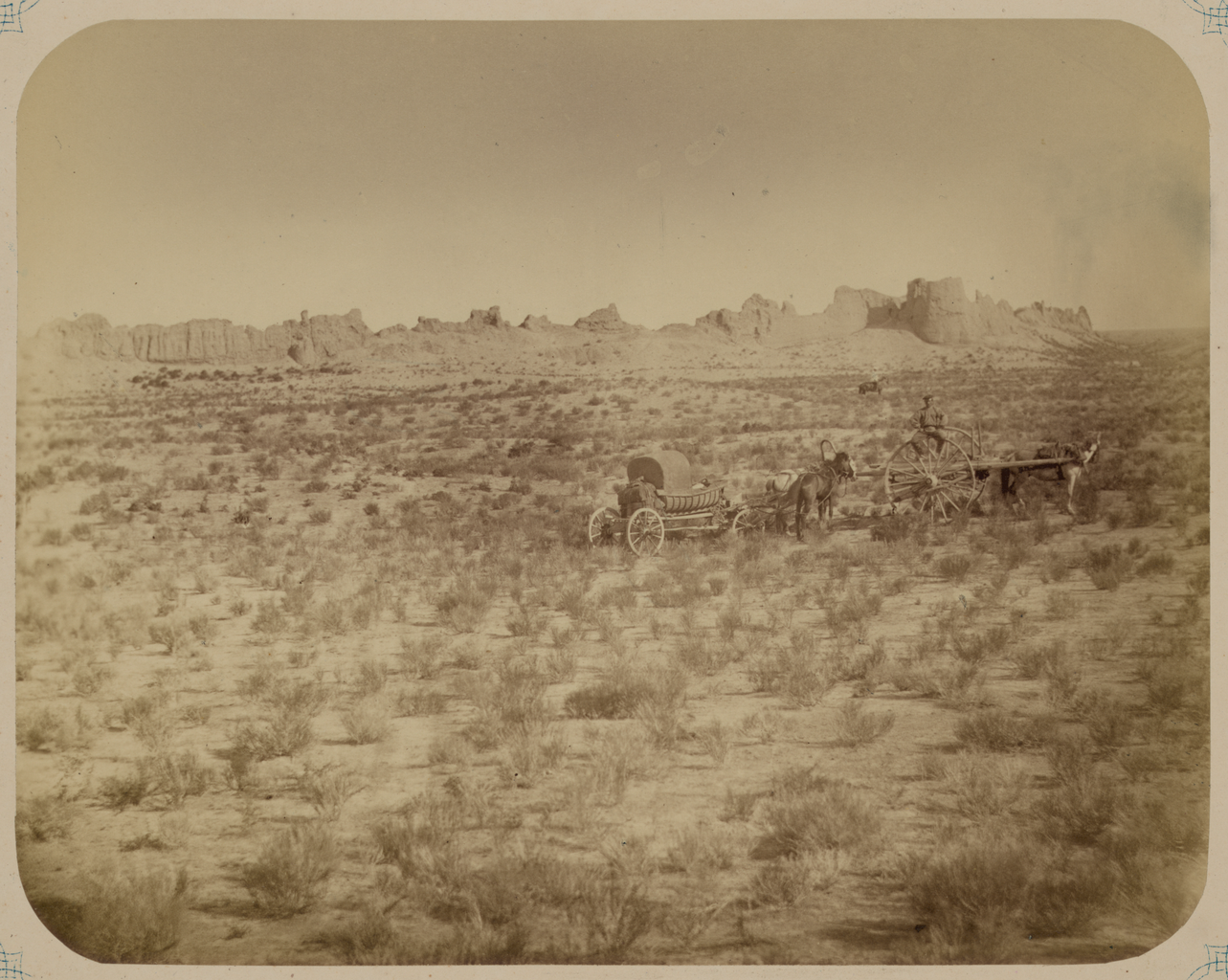 This photograph of the ruined walls of the city of Sauran, located in the southern part of present-day Kazakhstan, is from the archeological part of Turkestan Album. The six-volume photographic survey was produced in 1871-72 under the patronage of General Konstantin P. von Kaufman, the first governor-general (1867-82) of Turkestan, as the Russian Empire’s Central Asian territories were called. The caption notes that the photograph was taken in 1871, when the area was part of the Syr-Darya Province, named after the Syr-Darya River. Sauran (also known as Savran) was some 40 kilometers from the city of Yasi (present-day Turkestan, Kazakhstan), and was reputed to be an important point on the Silk Road. In the 14th century it became the capital of the regional Ak Orda (White Horde), and at the time was known for its ceramic tile production. (Ak means “white” and, in the traditional Turkic naming of cardinal compass points, corresponds to “south”; the other cardinal directions are Kok, meaning “blue” or “east”; Qizil, “red” or “west"; and Qara, “black” or “north.”) The enormous ruined walls in this view rise from the surrounding plains, which were extensively irrigated when the city was inhabited. The moist earth provided an ample supply of building material that was shaped with a technique known as pakhsa (rammed earth), which compresses damp soil mixed with clay and gravel into durable blocks. Despite the dry climate, the walls over time eroded back into the earth. A sense of the vast space is conveyed by the horse-drawn vehicles (including a kibitka, or hooded cart) and figures in the foreground. Archaeological sites; Mountains; Photographic surveys; Wagons